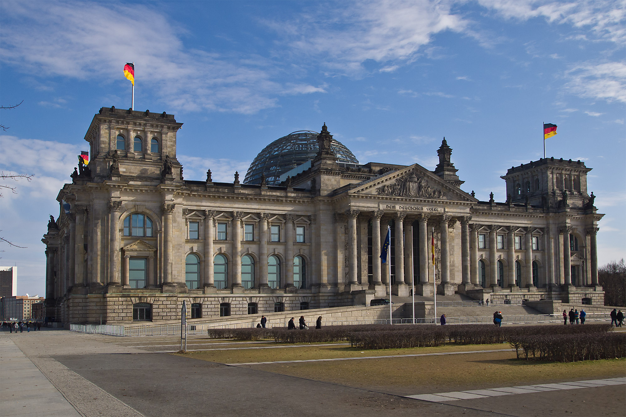 Reichstag (building) Berlin-Tiergarten (Germany), constructed to house the Reichstag, parliament of the German Empire. It was opened in 1894 and housed the Reichstag until 1933. Today's refers to the institution Bundestag.